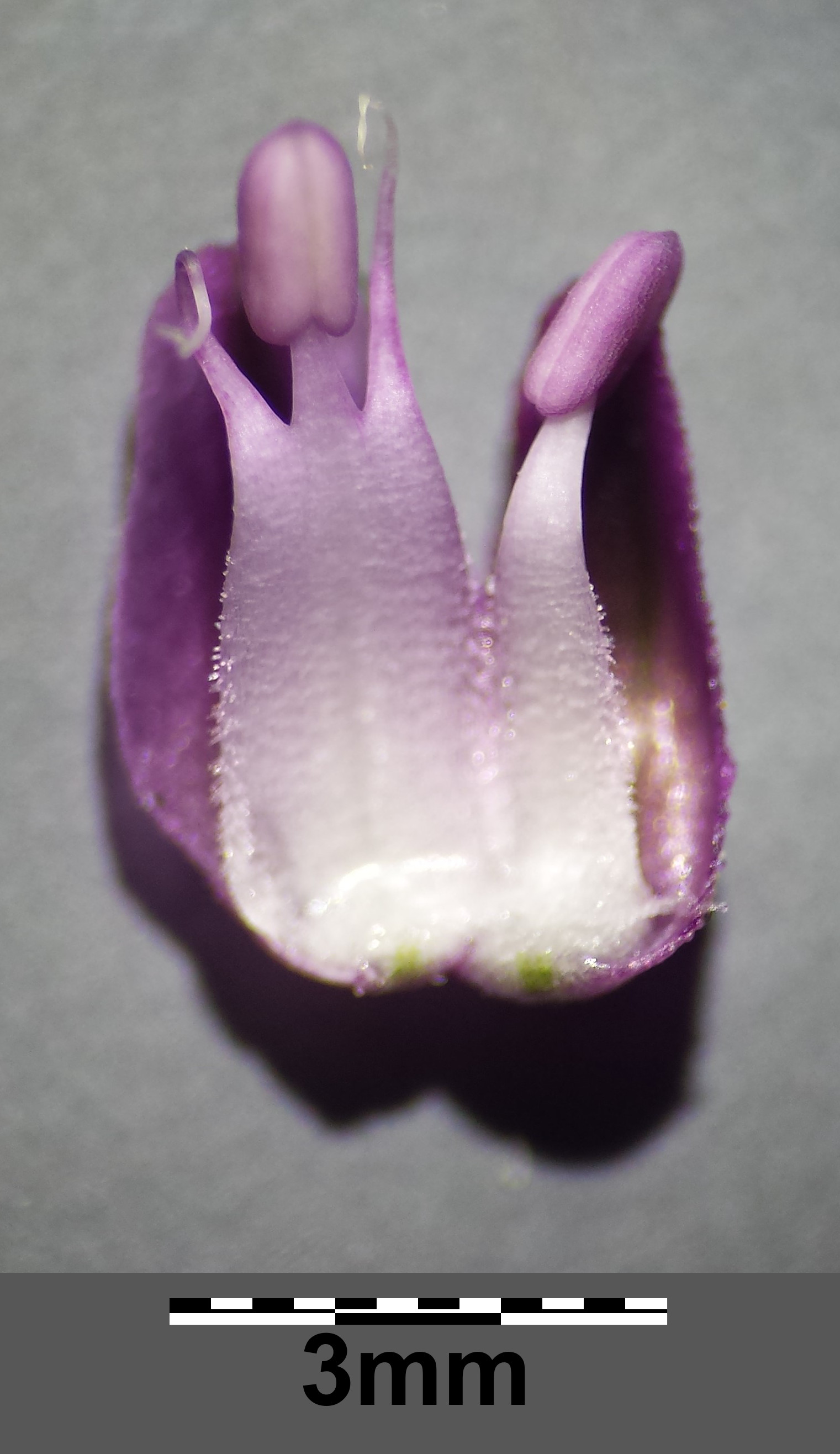 Perigone leaves with stamina Taxonym: Allium scorodoprasum ss Fischer et al. EfÖLS 2008 ISBN 978-3-85474-187-9 Location: Schwarze Lacke, Vienna-Floridsdorf - ca. 160 m a.s.l. Habitat: dry meadow